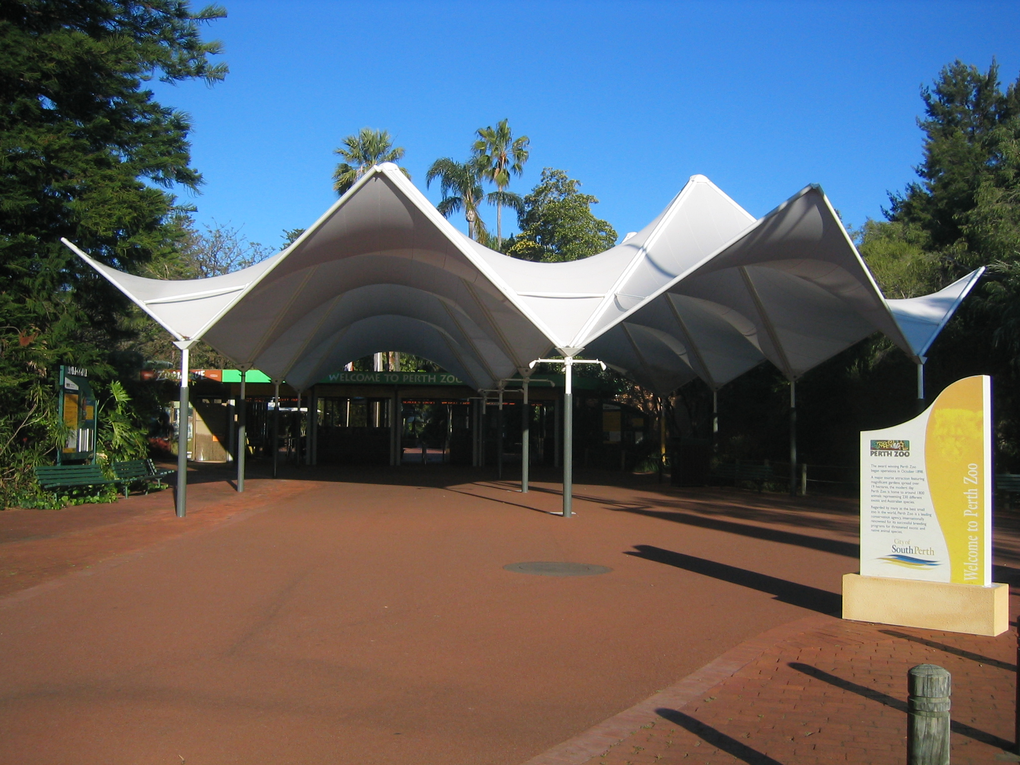 The entrance of the Perth Zoo